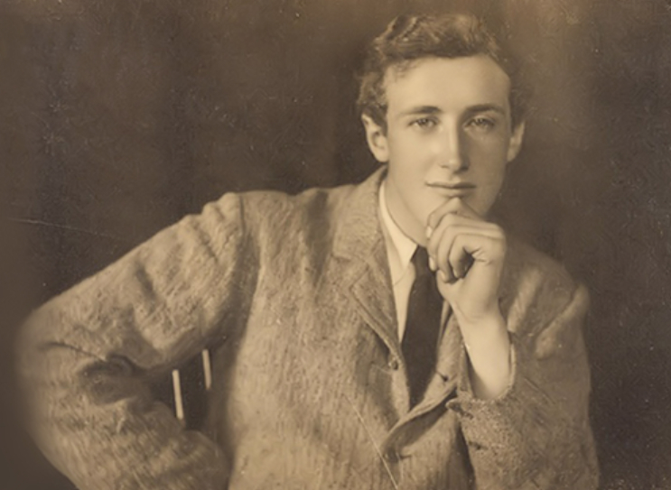 Denys Finch Hatton (1887-1931). Somewhere around 1910 or 1920.